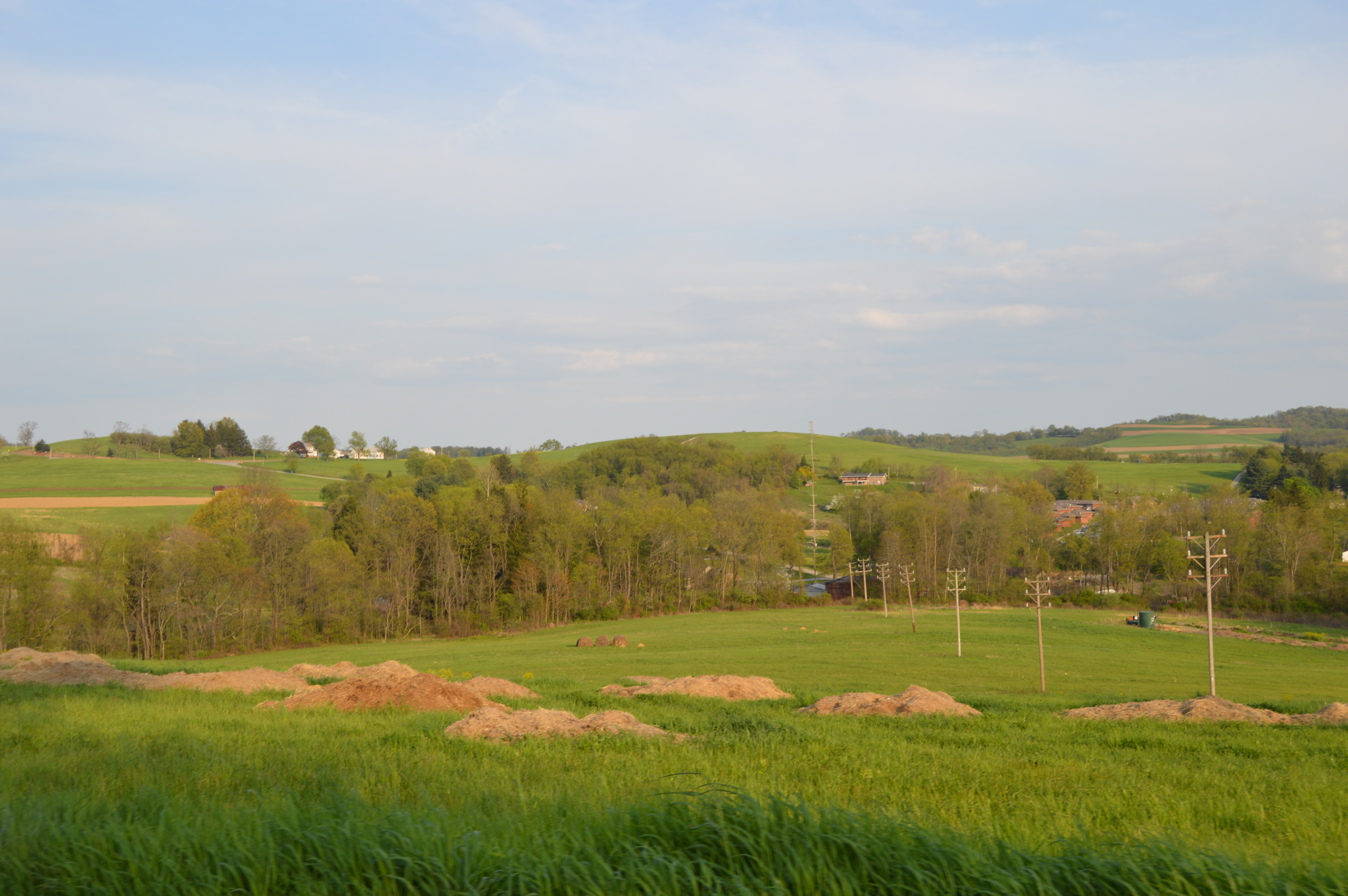 Fields and a wooded hillside east of Belle Vernon in northwestern Washington Township, Fayette County, Pennsylvania, United States. Much of Arnold City can be seen in the distance on the right half of the photo. Photo looks southeast from Cook Lane at the third driveway south of the county line.